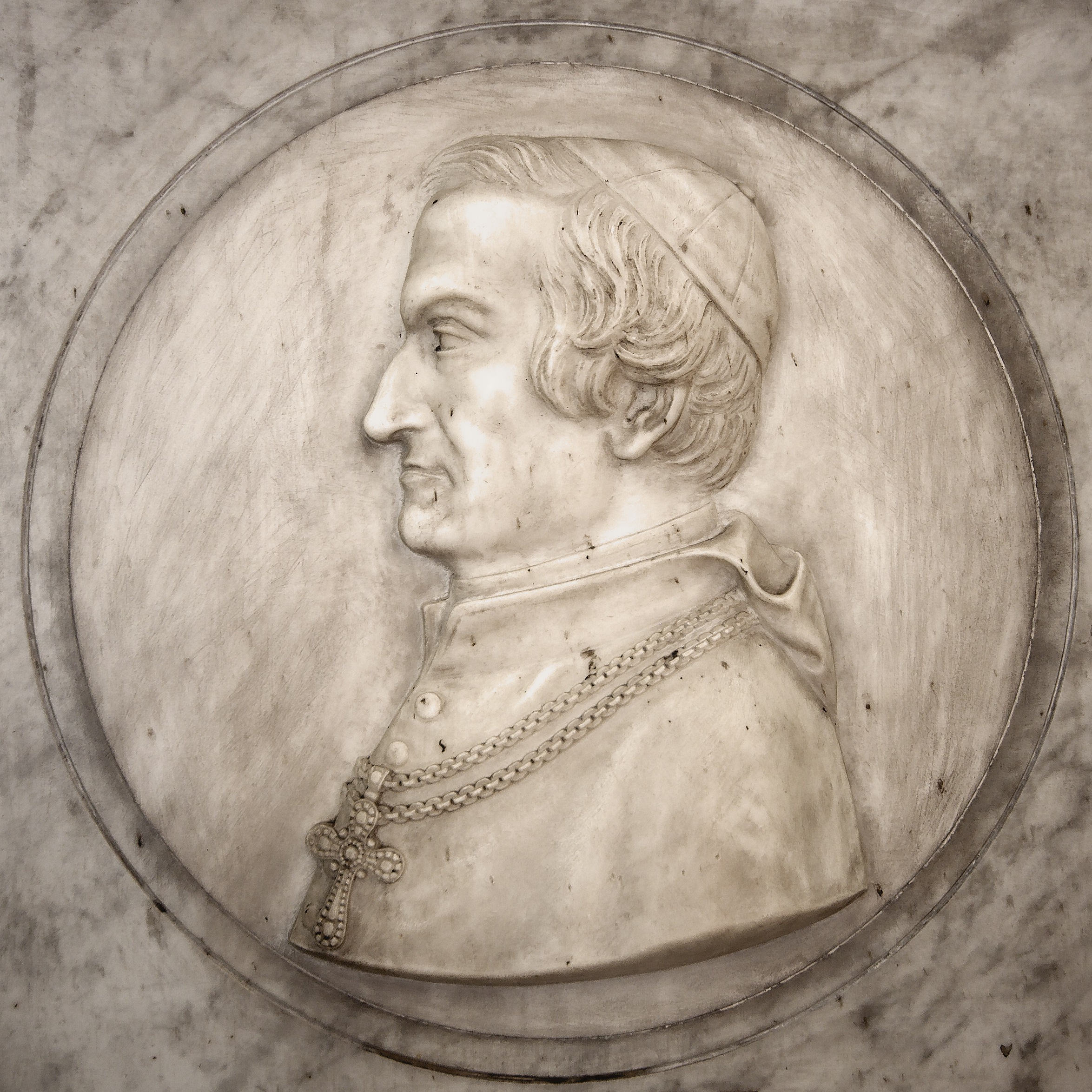 Leon Przyłuski, arch bishop of Gniezno and Poznań, primate of Poland and Lithuania.